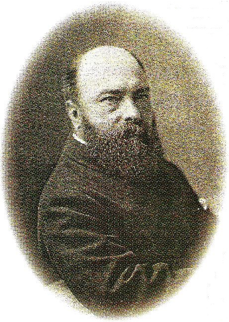 Sir Rowland Plumbe (1838-1919), president of the Architectural Association 1871-72